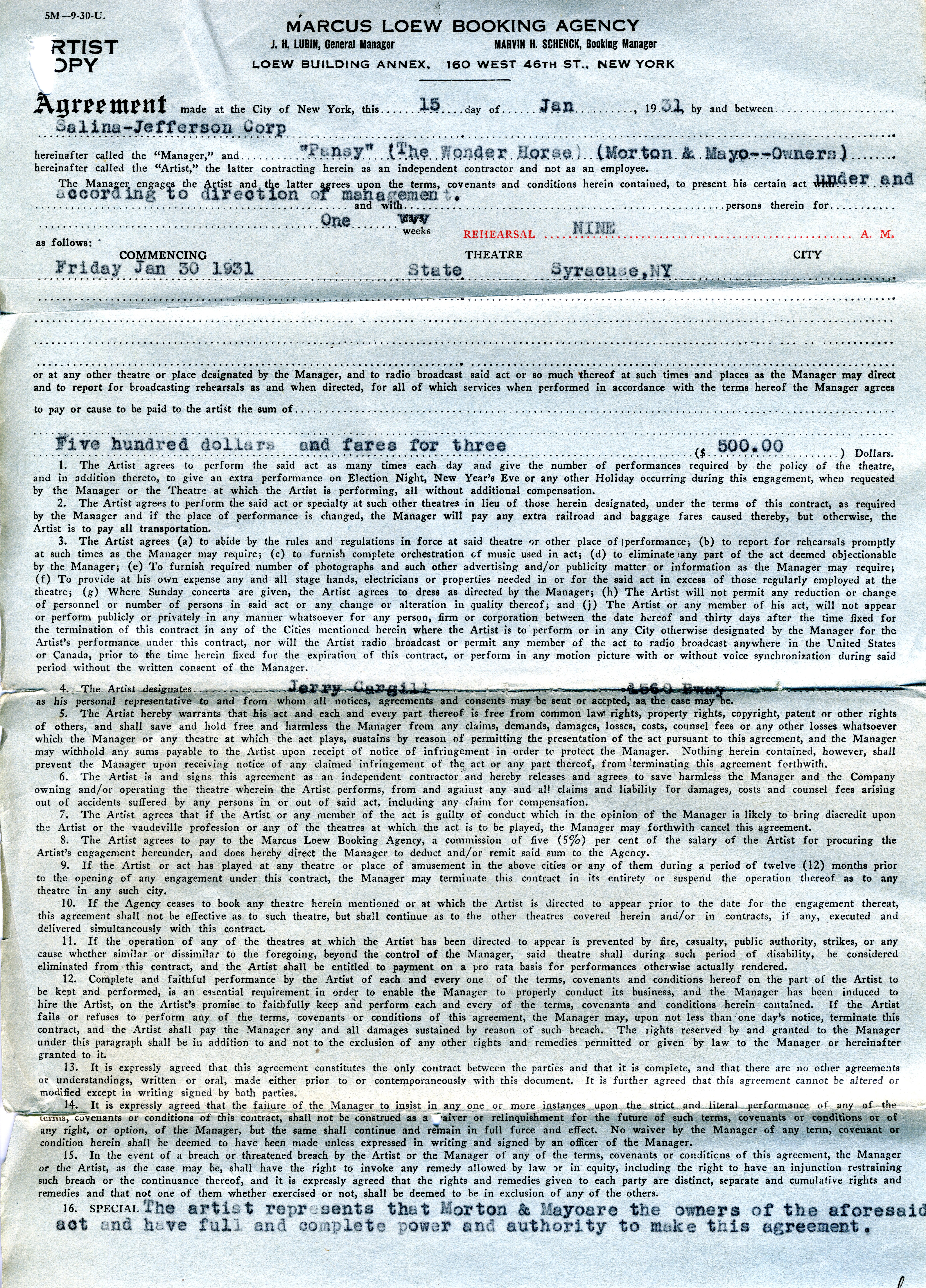 A contract between Salina-Jefferson Corp and Pansy the horse.